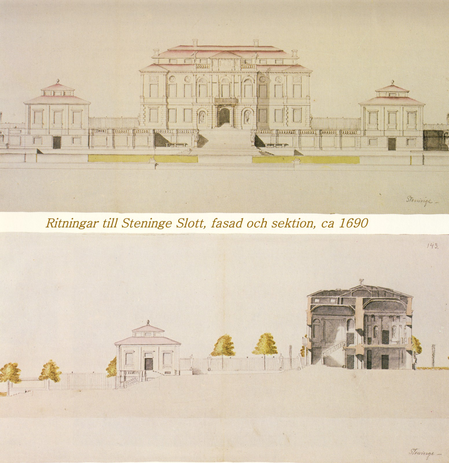 Steninge Mension by Sigtuna, Sweden